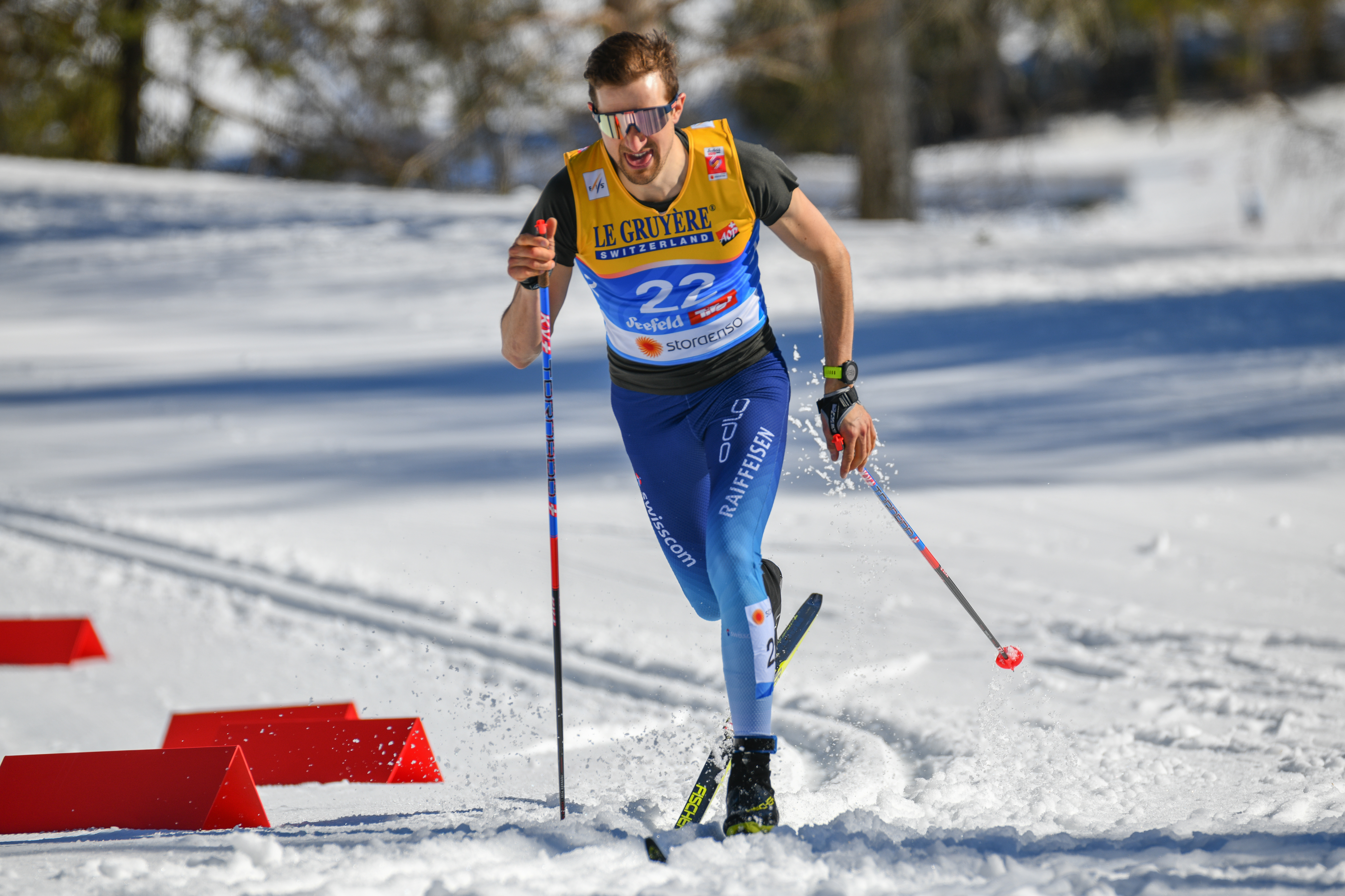 FIS Nordic Wolrd Ski Championships Seefeld 2019 - Men 15km Interval Start Classic. Picture shows Ueli Schnider (SUI).